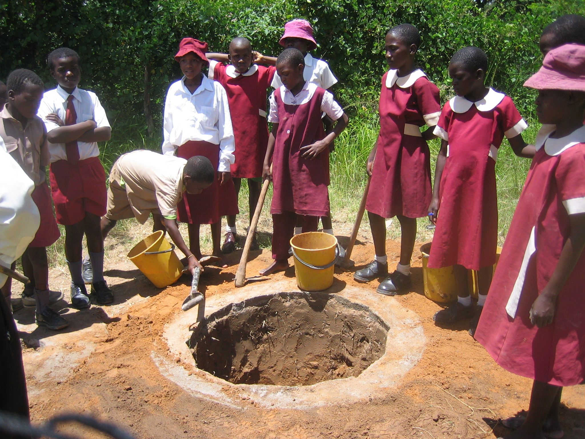 Chisungu. Digging the shallow pit of an arborloo inside a concrete ring beam. Photo by: Peter Morgan in Feb. 2009, Epworth-Zimbabwe